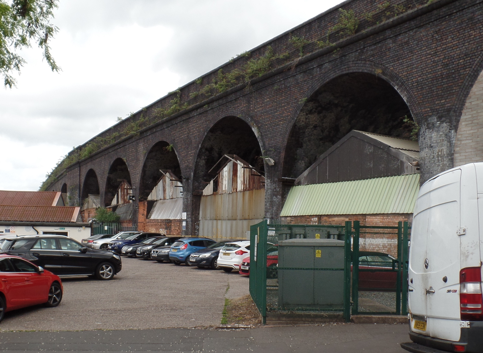 Part of Duddeston Railway Viaduct in Birmingham, England. The viaduct was never used by trains and never had track laid on it. It was caught in the crossfire between the GWR and the LNWR. Built 1850. View from Heath Mill Lane.